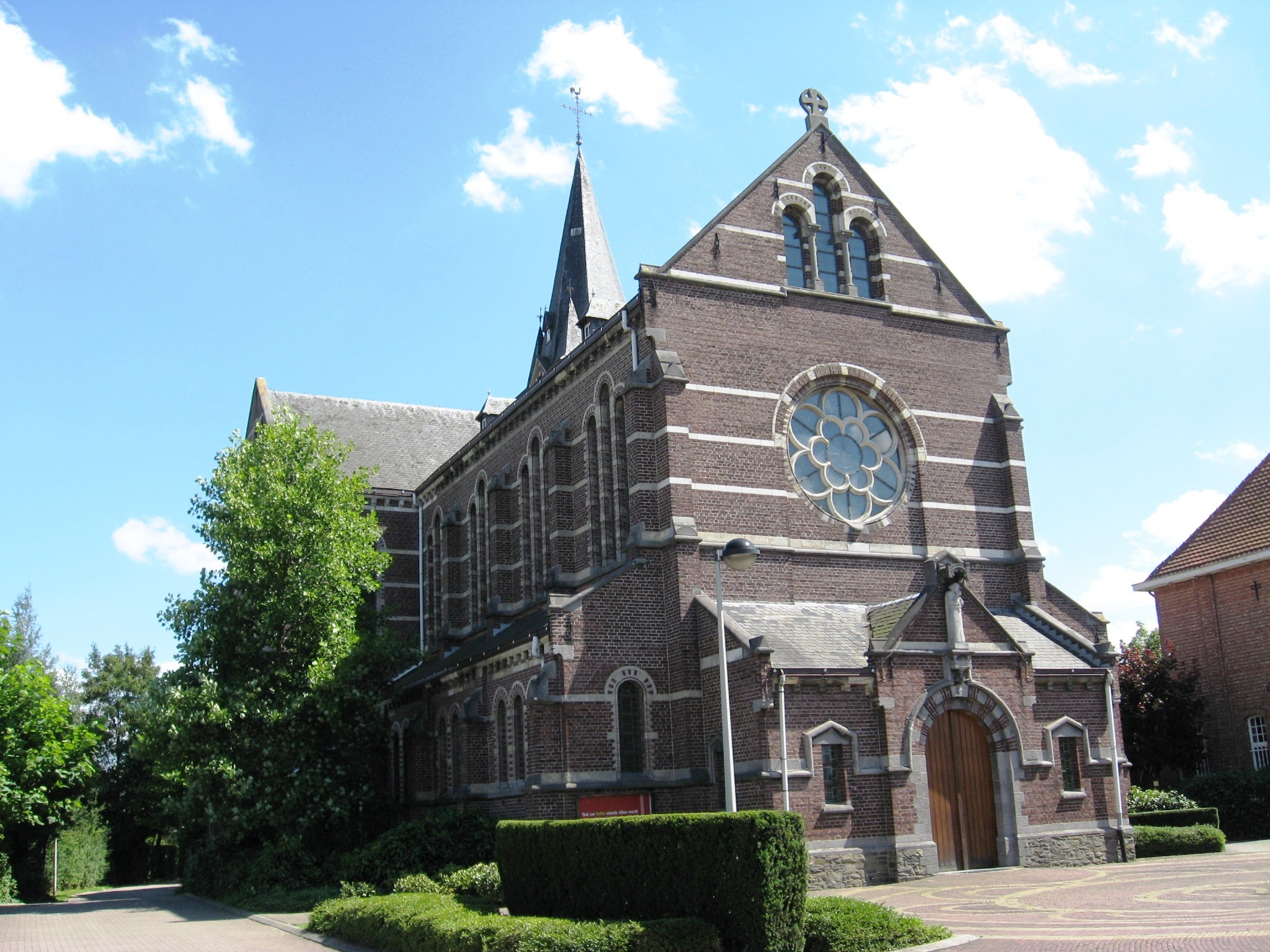 Church of Saint Joseph in Hasselt (Rapertingen), Limburg, Belgium